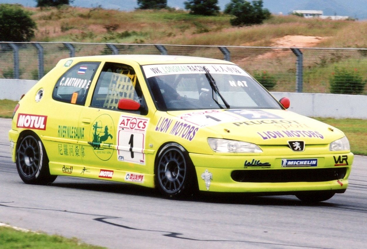 Thai driver C Nattavude driving his Peugeot 306GTi in the ATCC in Zhuhai in 2002.